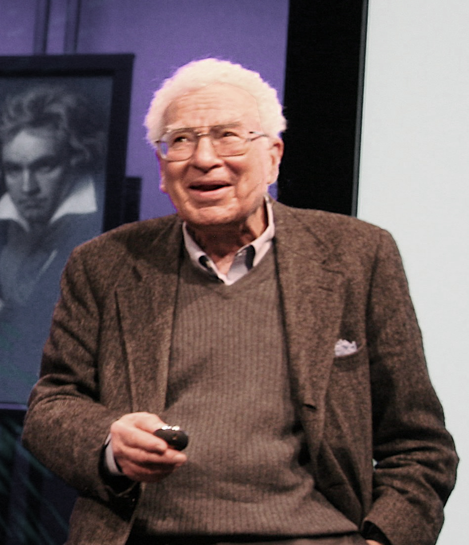 Murray Gell-Mann lecturing in 2007